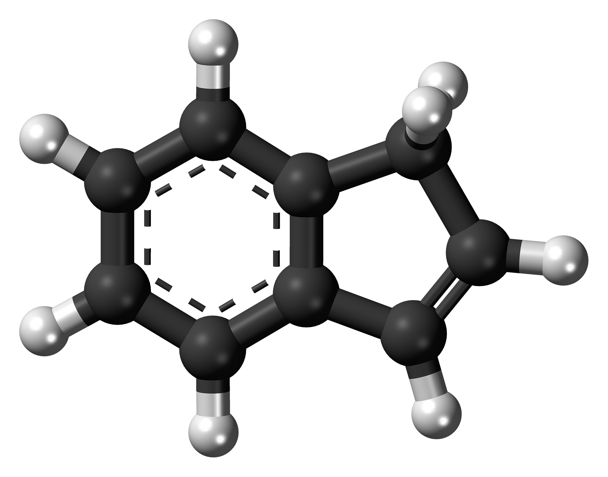 Ball-and-stick model of the indene molecule, an aromatic hydrocarbon. Color code: Carbon, C: black Hydrogen, H: white